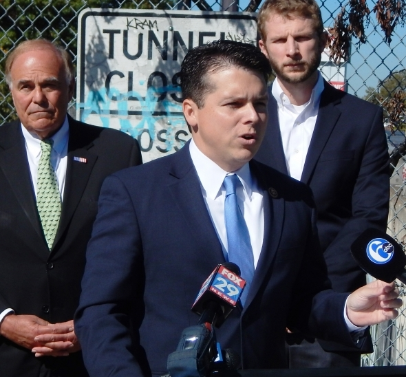 Transportation press conference